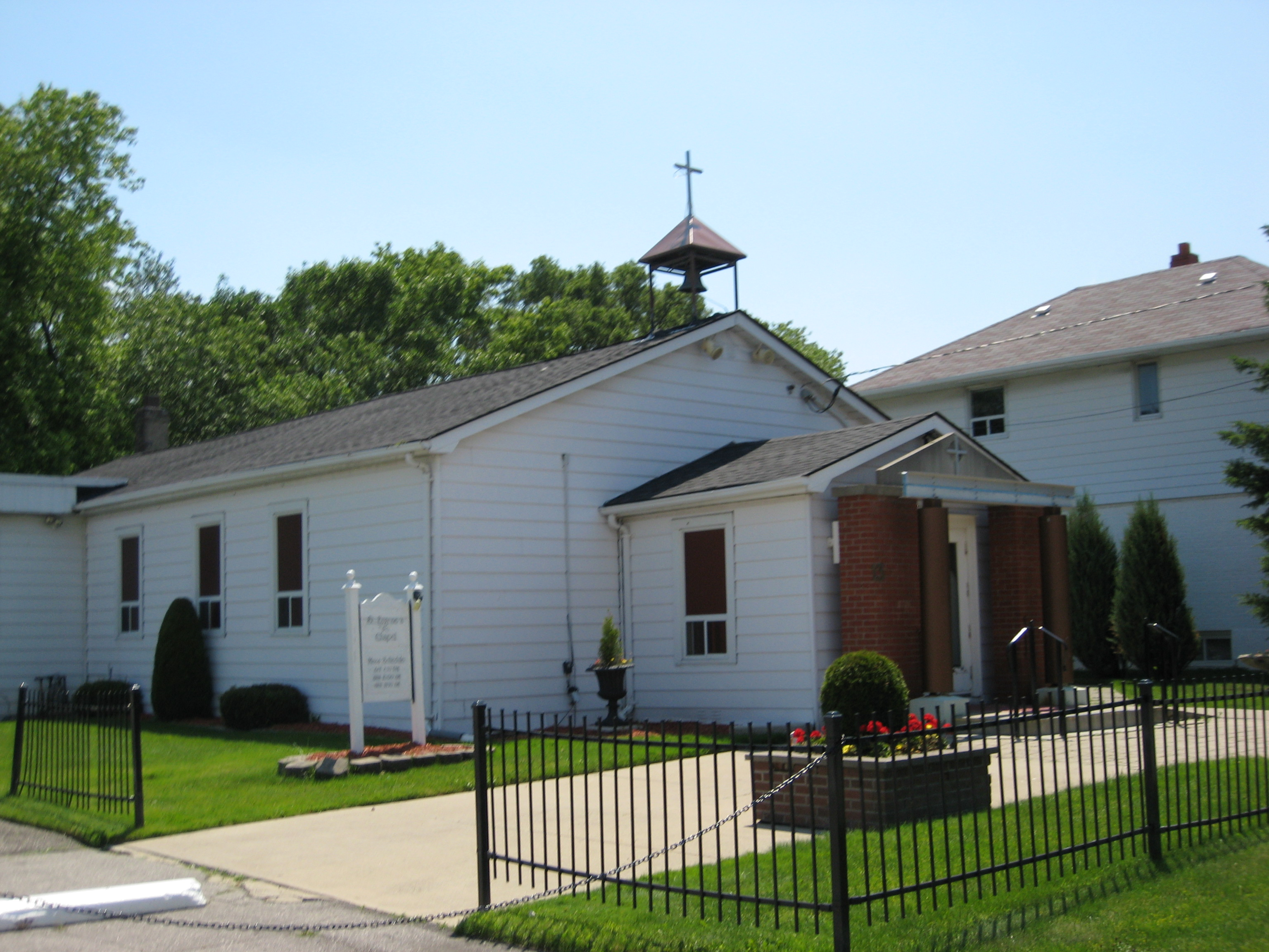 St. Euguene Roman Catholic Chapel